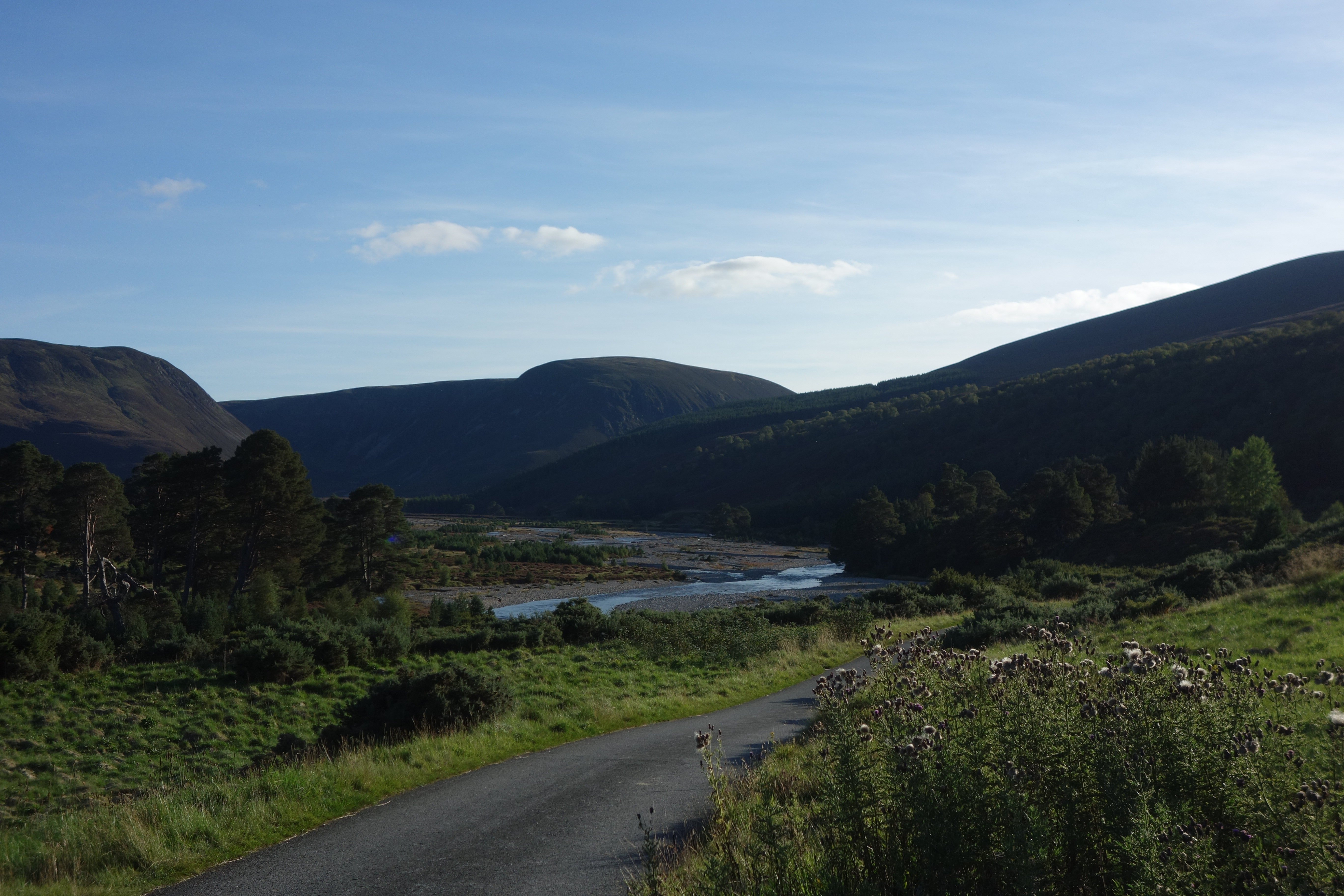 A view of Glen Feshie in the Scottish Highlands, with the River Feshie in the center